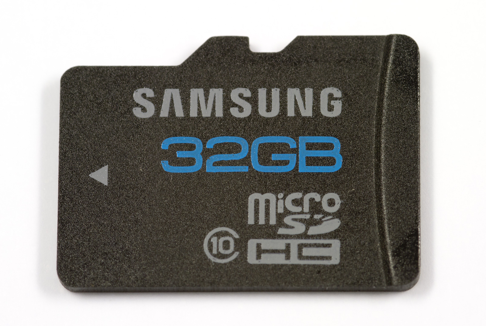 Samsung 32GB microSDHC card